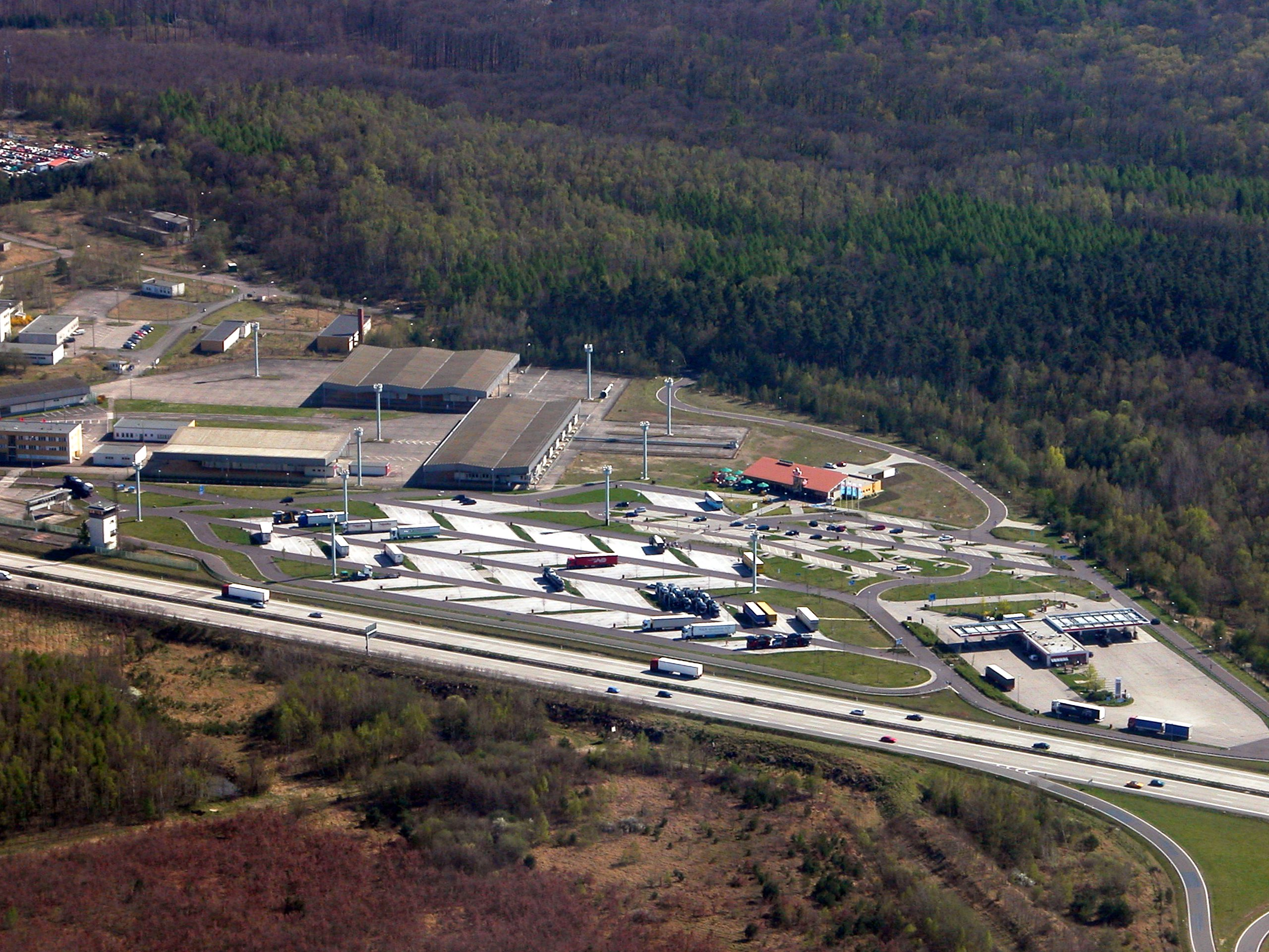 Aerial photograph of Helmstedt-Marienborn border crossing, Germany as seen from the north.